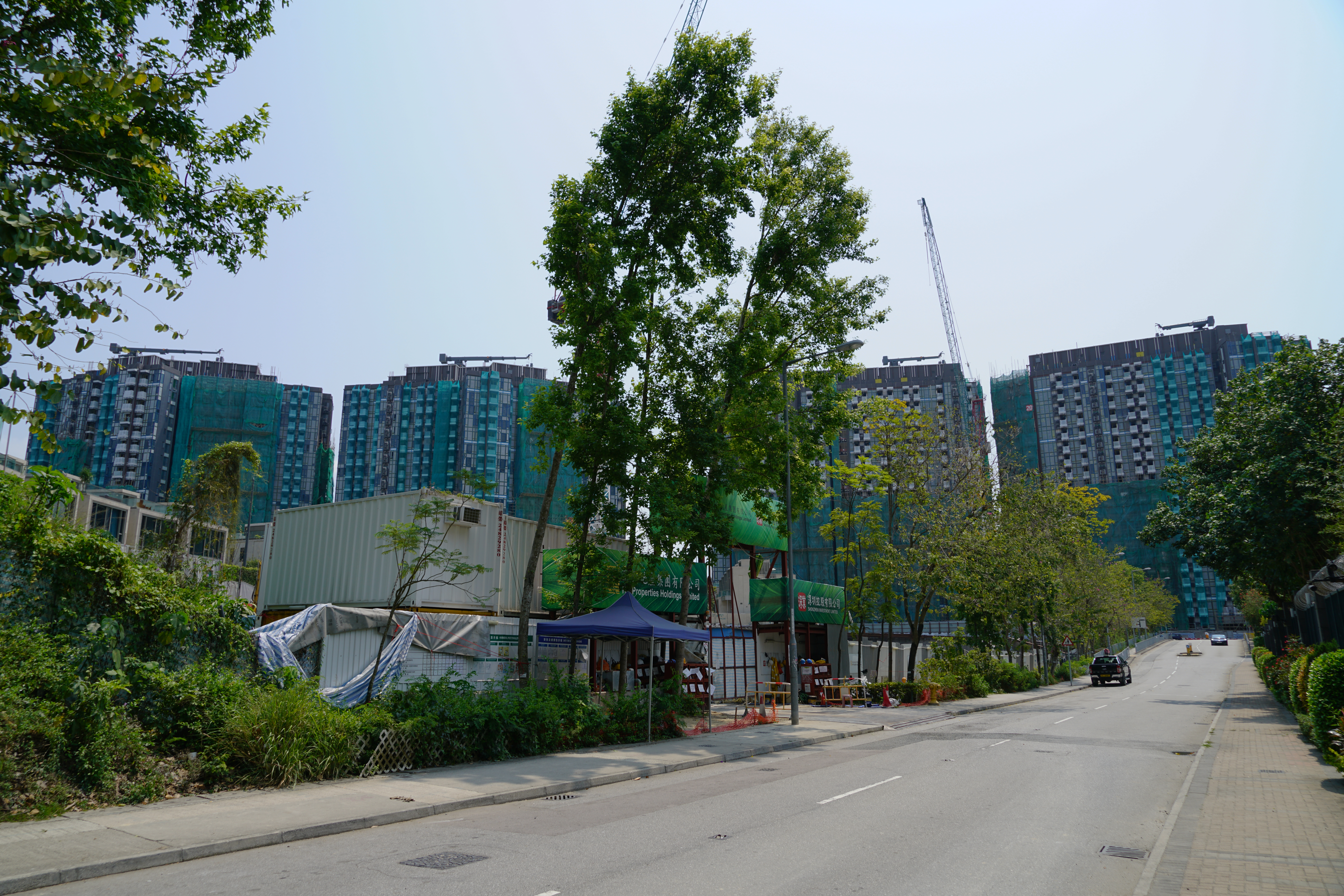 Emerald Bay, Hong Kong.